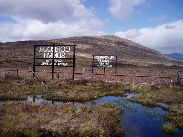 Corrour Summit. Just northwest of Corrour station, this is the highest point on the West Highland Railway at 411 m. Beinn na Lap is in the background.